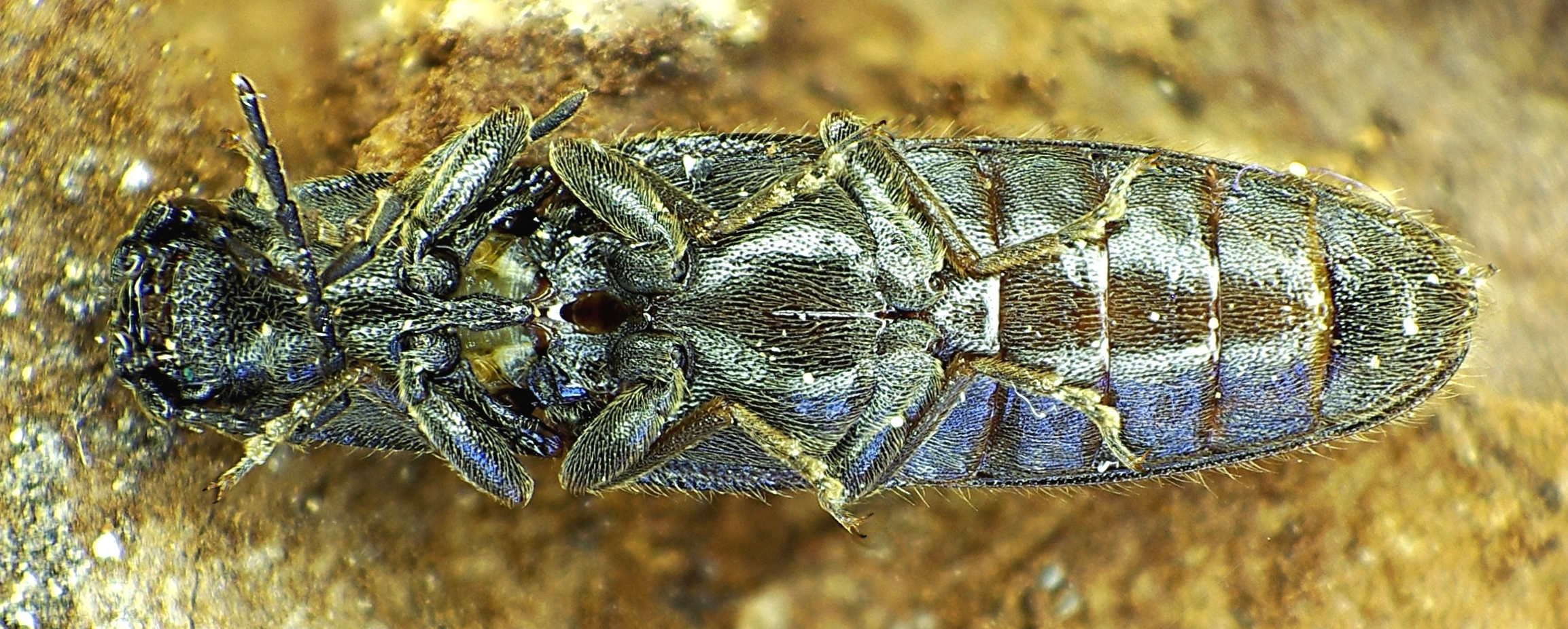 Athous bicolor male from Southern Germany